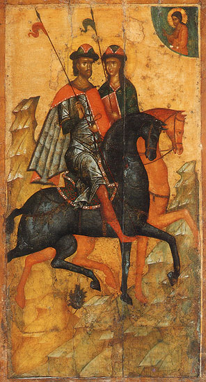 Boris and Gleb. A Russian icon from the first half of the 14th century. On exhibit at the Tretyakov Gallery.